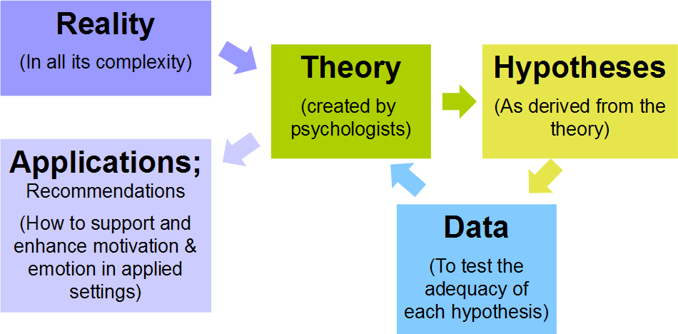 A model of the scientific research process in the context of psychological study about motivation and emotion. Based on Figure 1.1 (Reeve, 2009). Reeve, J. (2009). Understanding motivation and emotion (5th ed.). Hoboken, NJ: Wiley. (not working)